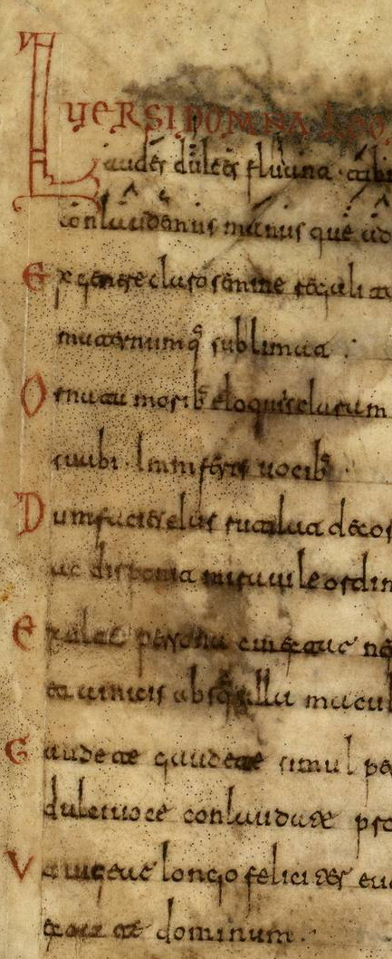 Chant to Leodegundia, Roda Codex, front page, beginning with musical notations on 1st verses. Verse initials also form an acrostic.